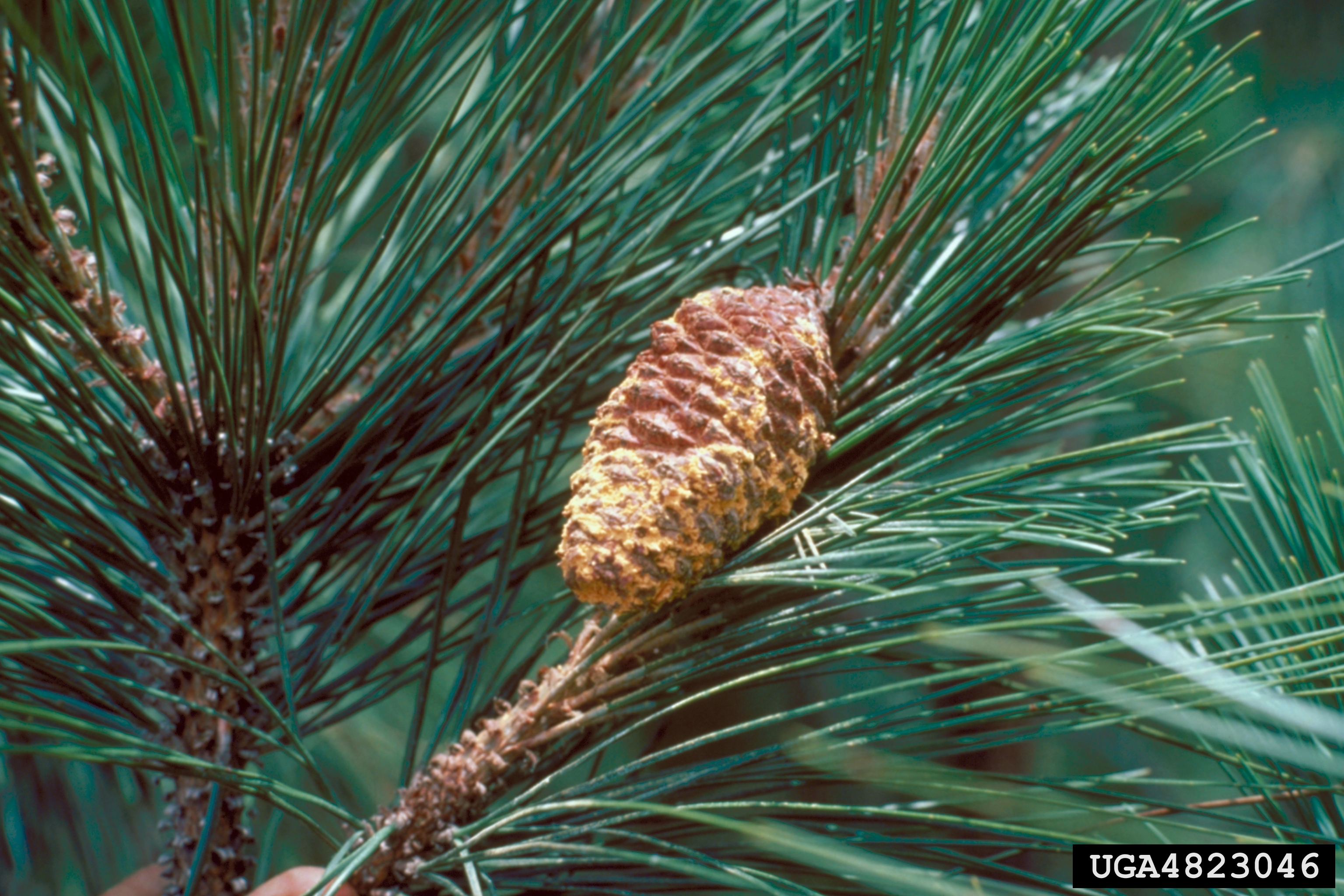 Infected swollen first year cone displaying powdery masses of yellow-orange aeciospores of Cronartium strobilinum.